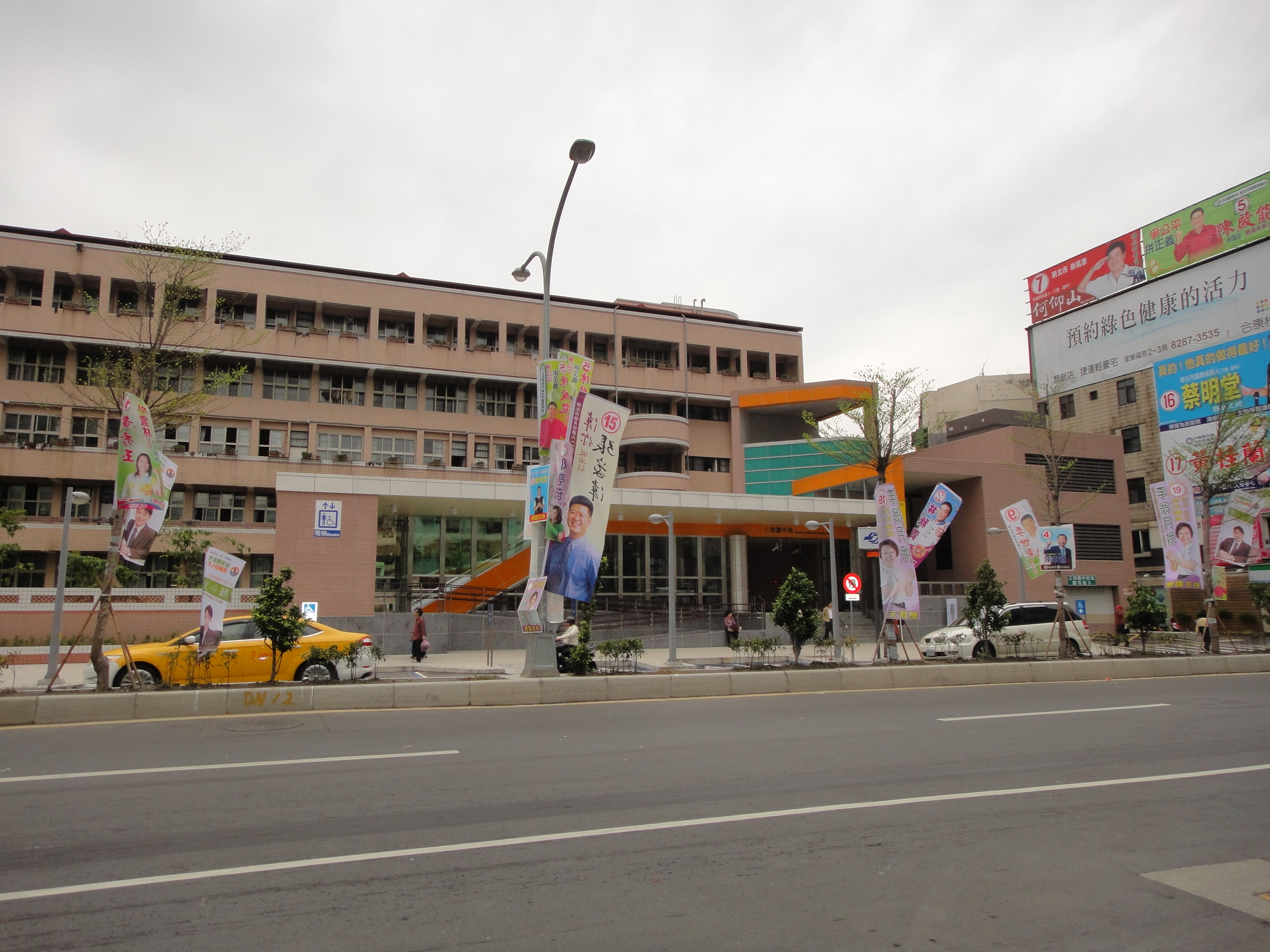 Sanhe Junior High School Station, besides Sanhe Junior High School, in Sanchong District, New Taipei City.